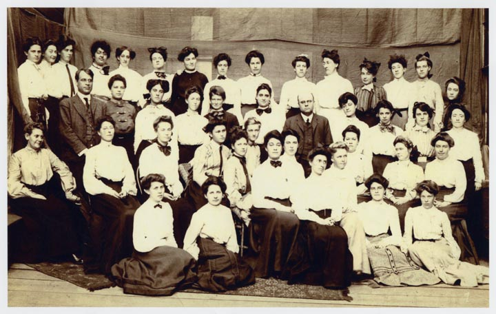 Class portrait of women graduates at State Normal School. One of graduates is Laura M. Mellerup, mother of Lorraine Lineer.